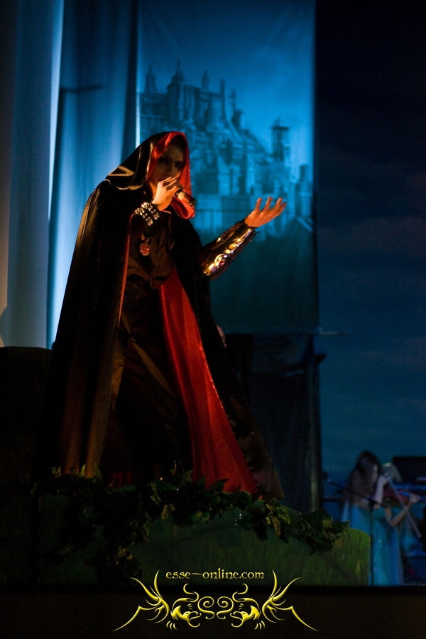 Yuri Sklar (Vilgefortz of Roggeveen). Rock-opera "Road without return" of group "ESSE", based on the saga of A. Sapkowski "The Witcher". Scene 11. "Enemy". Photo from an ESSE group concert in Rostov-on-Don 10.04.2010.